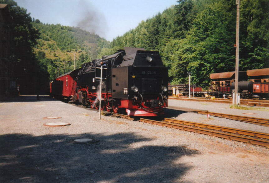 99 7245 pauses at Eisfelder Talmühle on its way to Nordhausen.